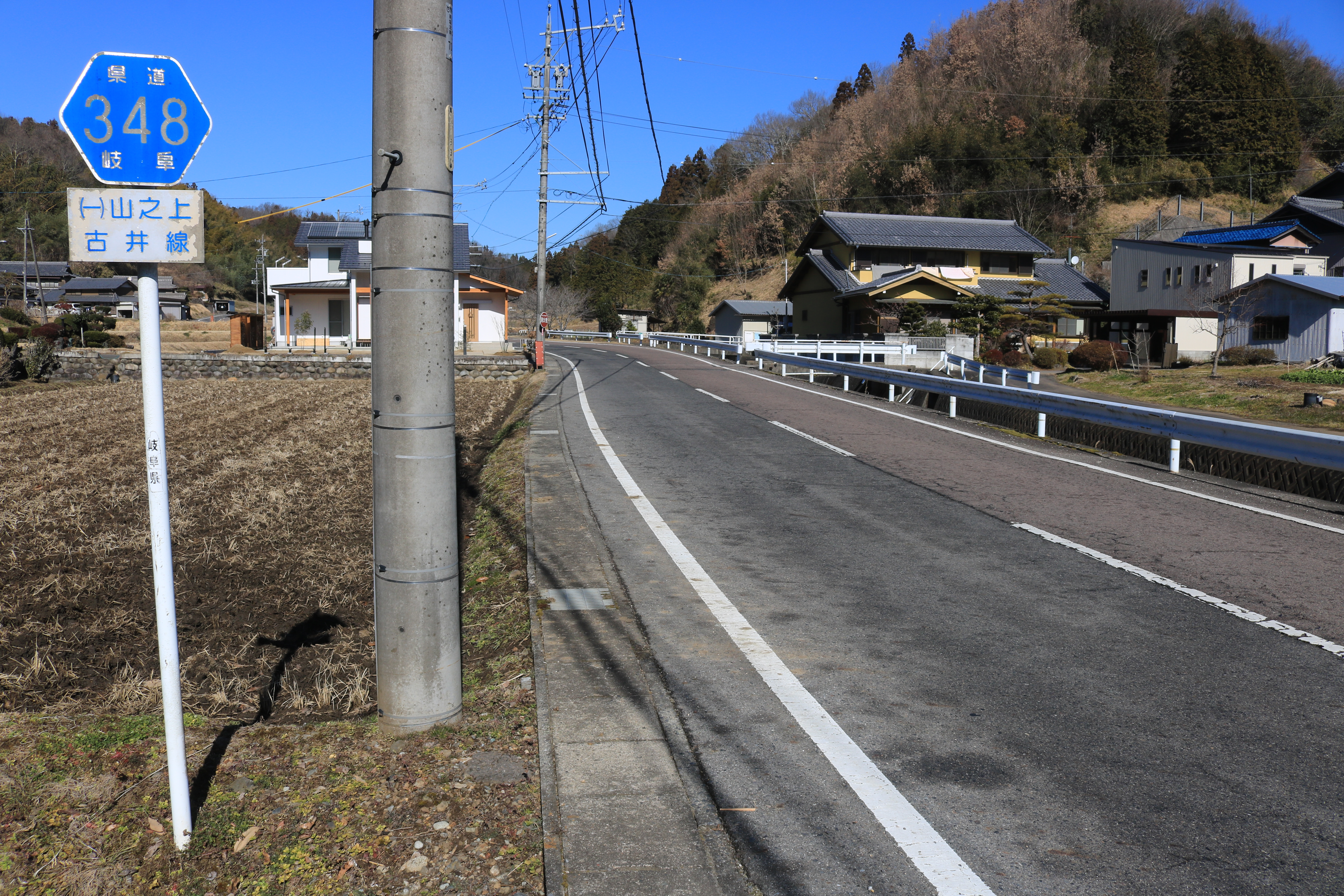 Gifu Prefectural Road Route 348 in Yamanoue-cho, Minokamo, Gifu prefecture, Japan.